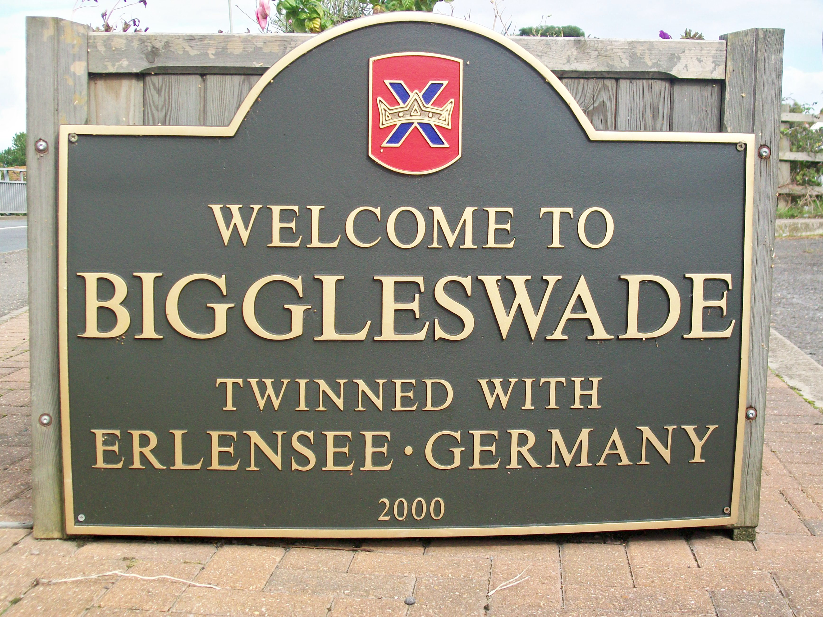 As you enter Biggleswade via Shortmead Street (just off the A1, see co-ordinates below), you see this sign. At the top, the Biggleswade Town Council Logo (and de facto town logo) is displayed, followed by the words: Welcome to Biggleswade.Twinned with Erlensee, Germany. 2000